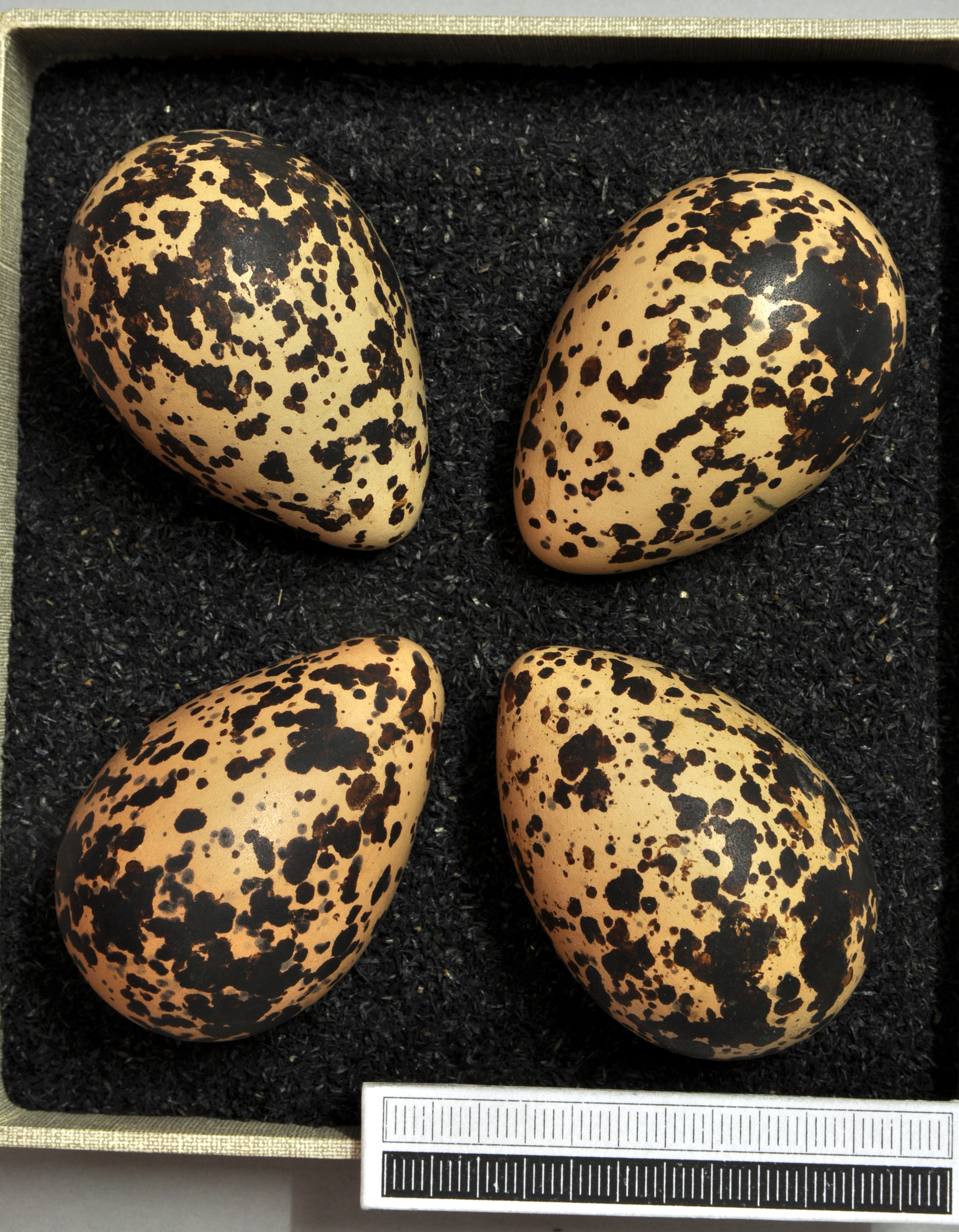 European golden plover Pluvialis apricaria , egg, Coll. Museum Wiesbaden